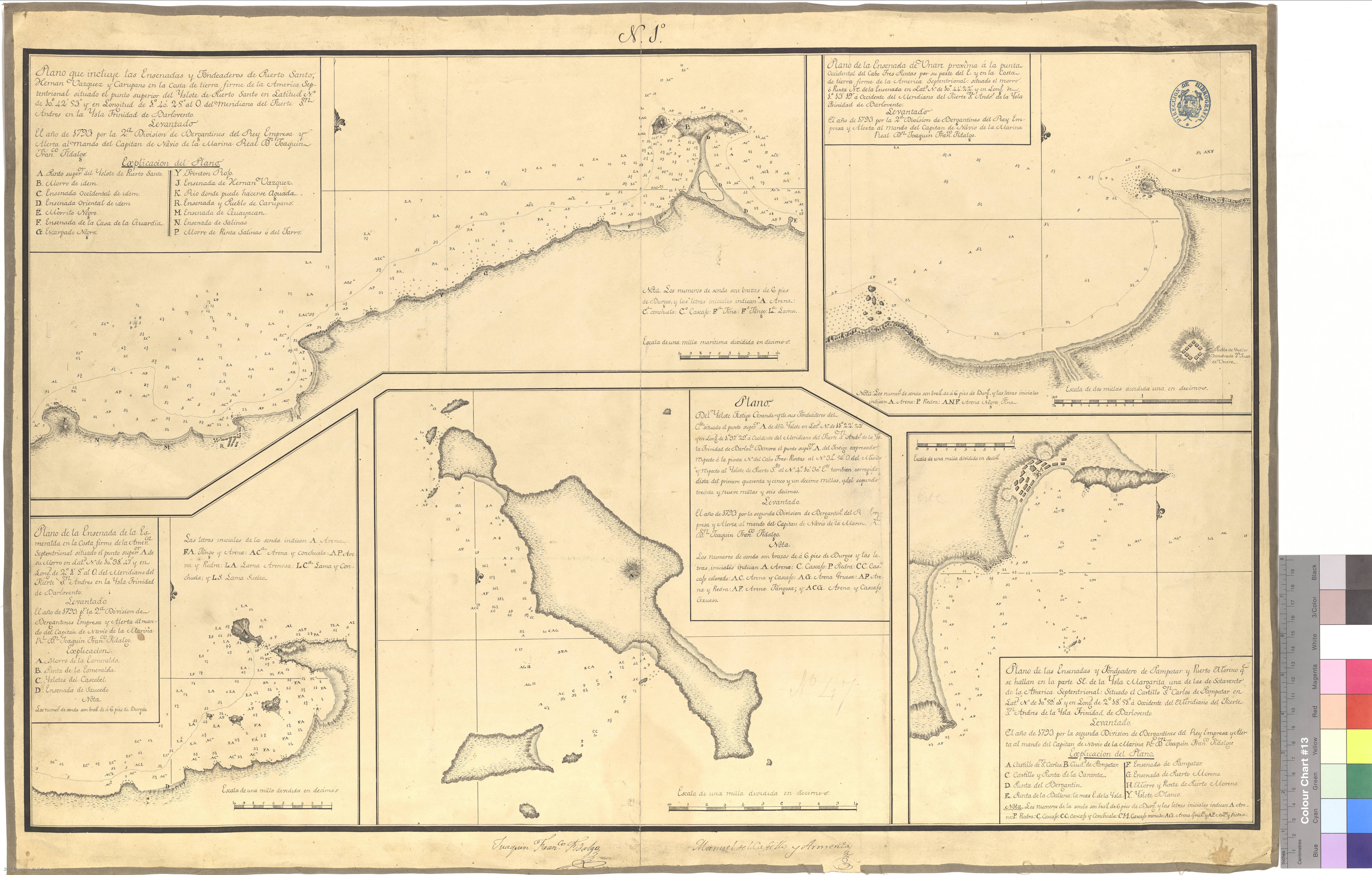 map of Testigo Grande, main island of Los Testigos Archipelago, Venezuela/Caribbean